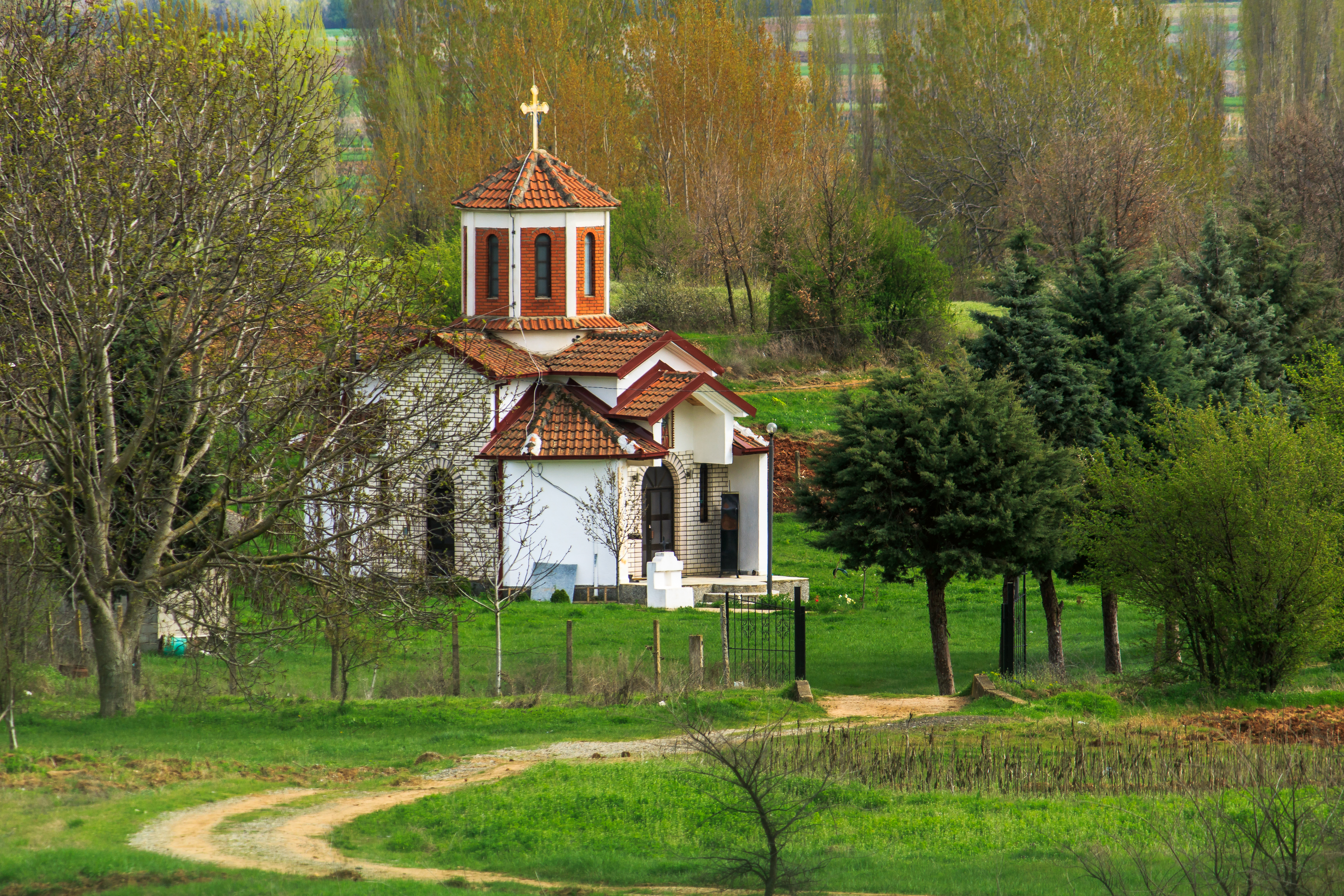 View of St. Petka Church in the village Injevo